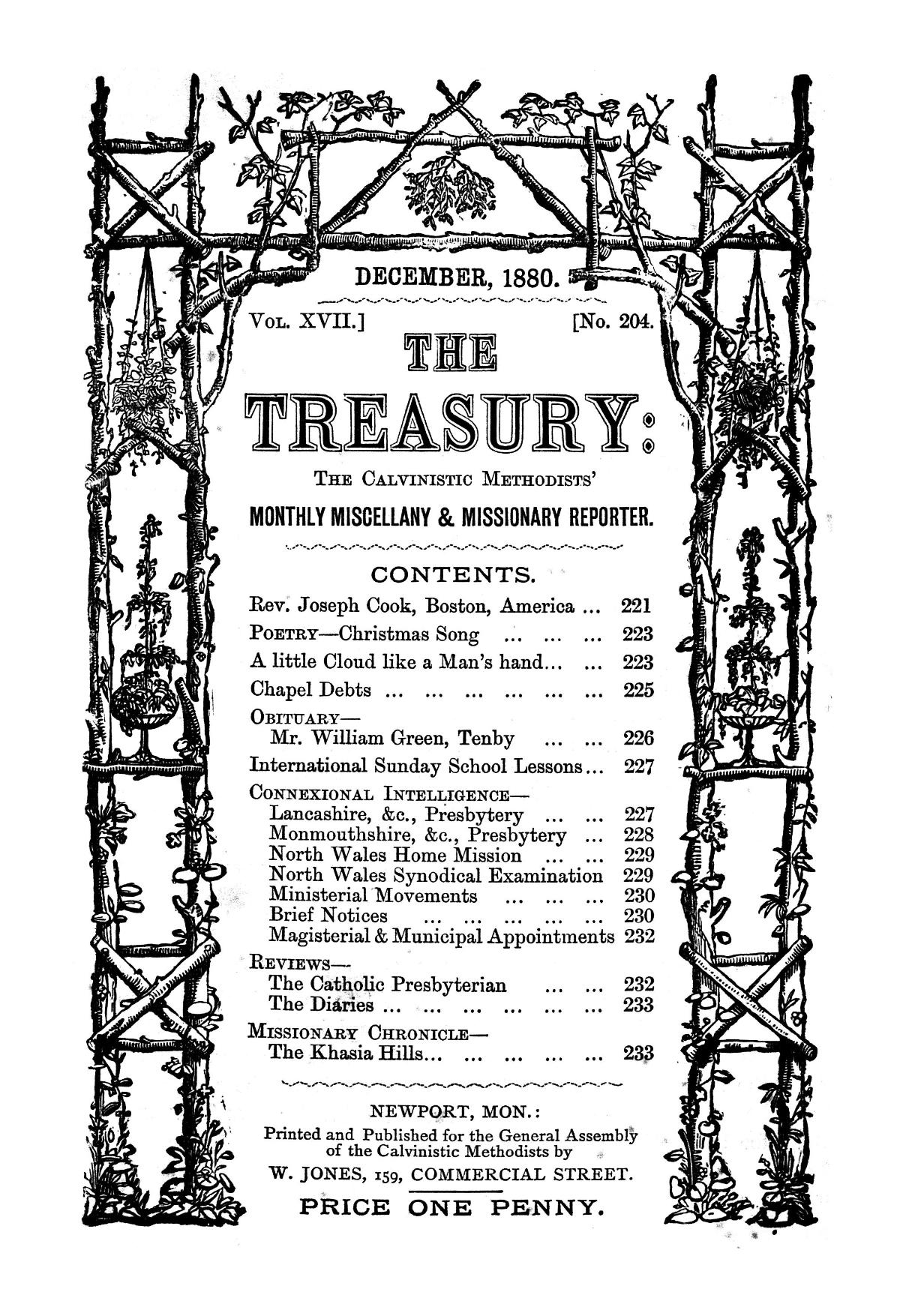 A monthly religious periodical serving the churches of the Calvinistic Methodists. The periodical's main contents were religious articles and denominational news. The periodical was edited by the minister, Joseph Evans (1832-1909). Associated titles: The Treasury with which is incorporated The Torch (1913).